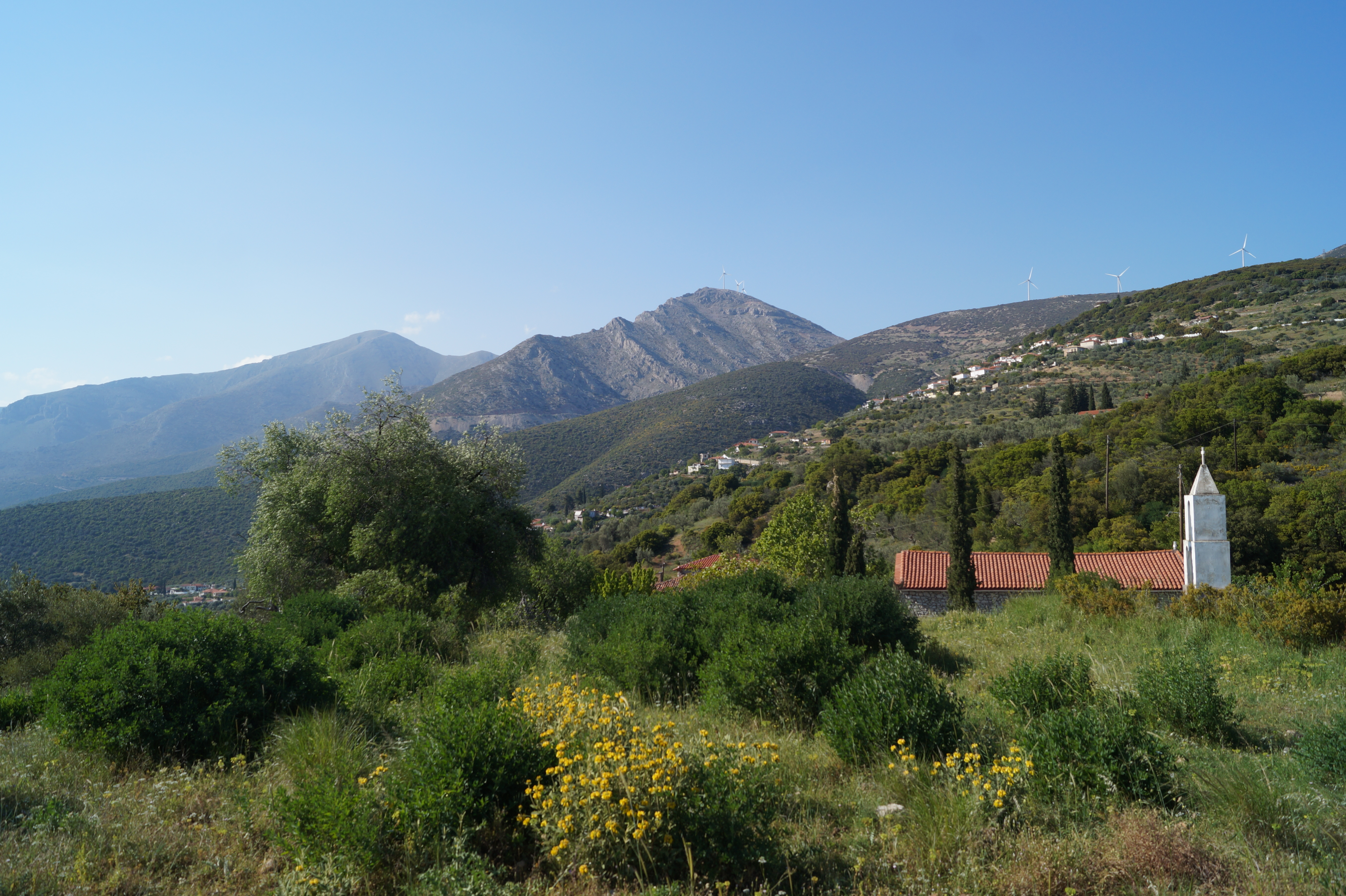 Achladokampos, Peloponnes, Greece: View from ancient Hysiae on Achladokampos and Mount Paravounaki (1101 m).